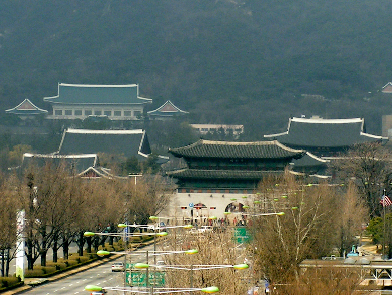 This is from the MediaCT offices in knore. View over the Gyeongbokgung (Palace) and the Blue House (Residence of the President) at the foot of Bukhansan in Seoul, South Korea.